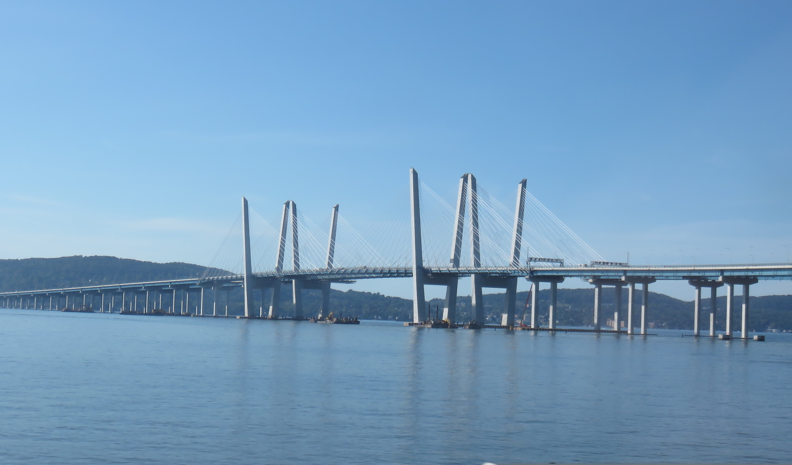 Tappan Zee Bridge viewed from a Metro-North train in 2019